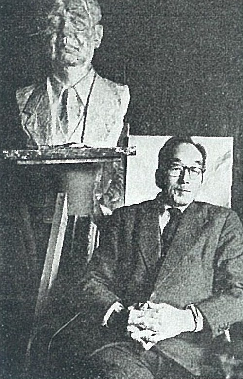 Tsuruzo Isii is a Japanese sculptor and painter.